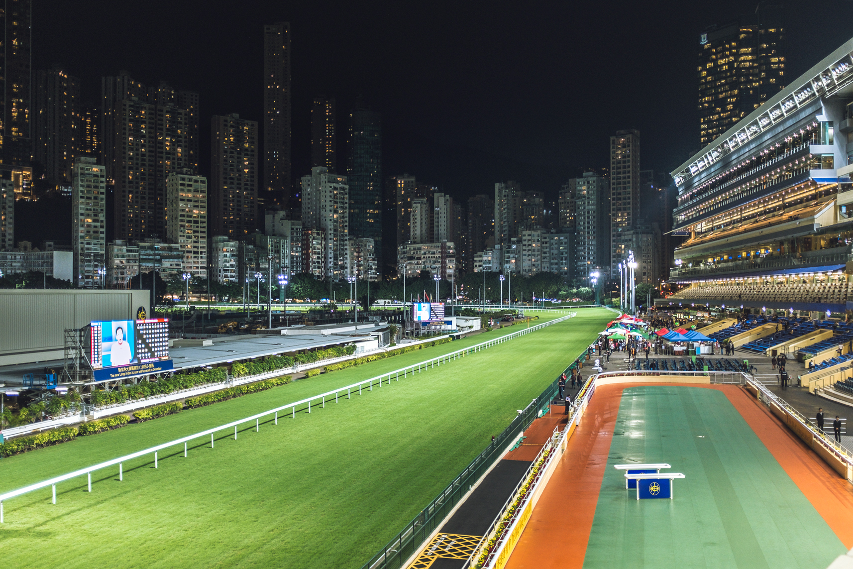 Happy Valley Racecourse at night